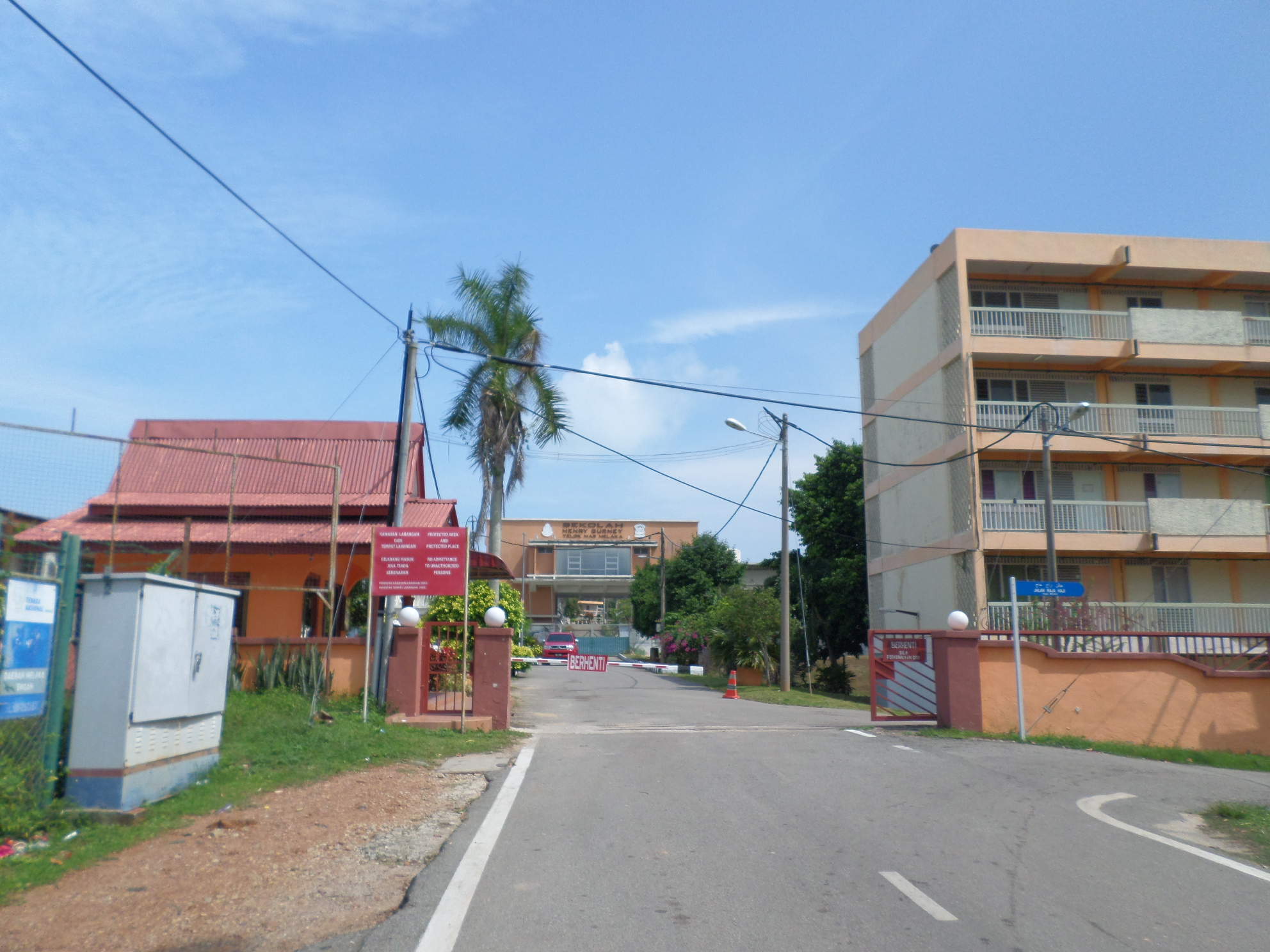 Henry Gurney Prisoners School, Telok Mas, Malacca, MalaysiaBahasa Melayu: Sekolah Tahanan Henry Gurney, Telok Mas, Melaka, Malaysia